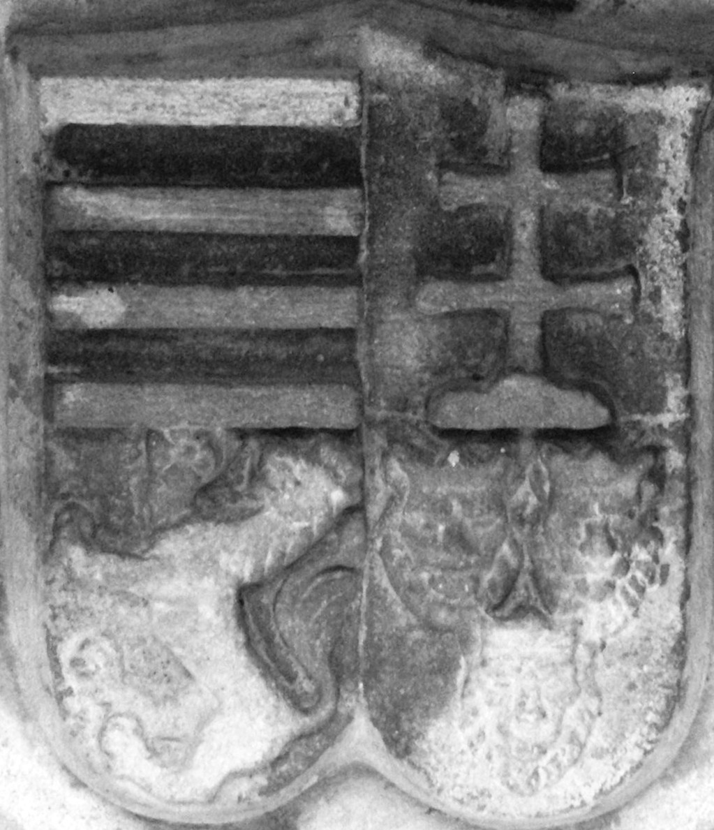 Coat of arms of Sigismund of Luxembourg, Bratislava Castle, Bratislava. Sigismund's gate.